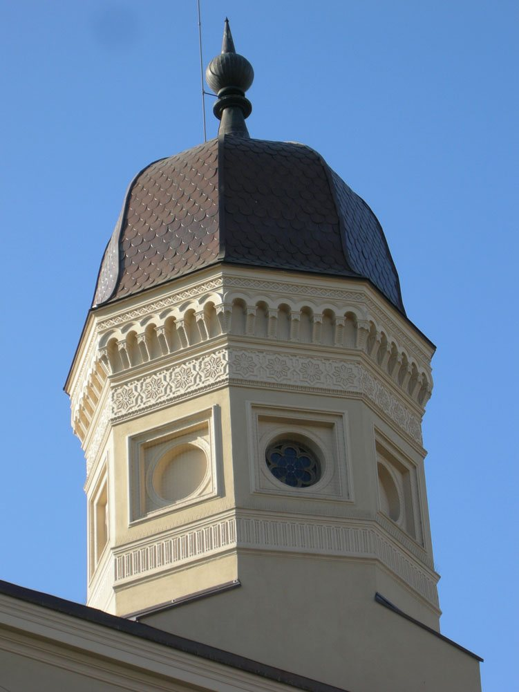 One of the towers of the synagogue of Ostrów Wielkopolski in Poland